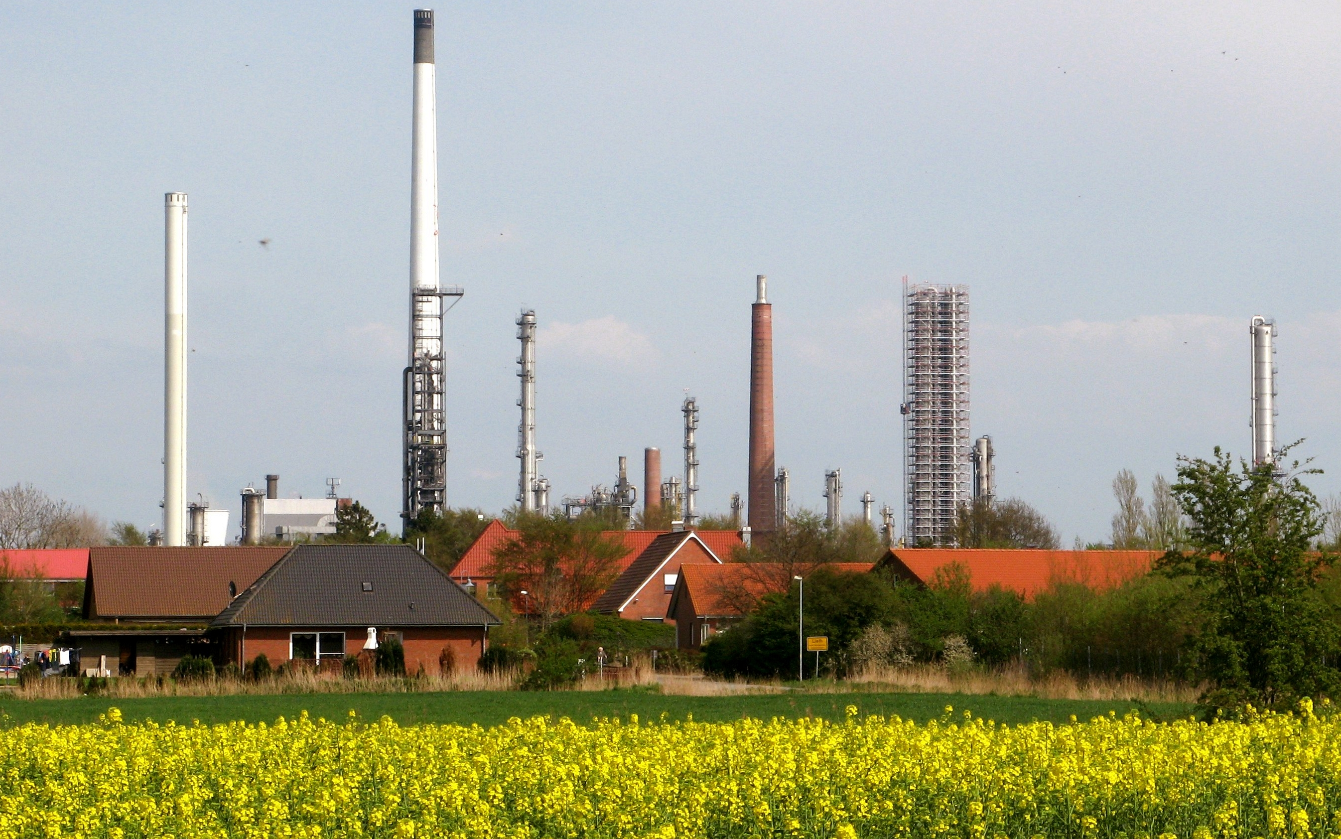 Shell Oil refinery in Hemmingstedt, Dithmarschen, Germany in summer